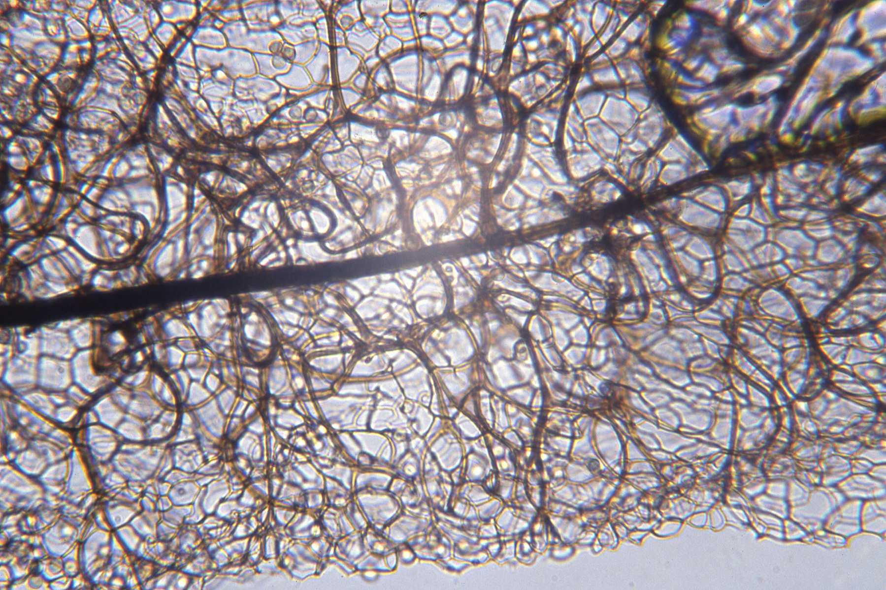 micr.400x